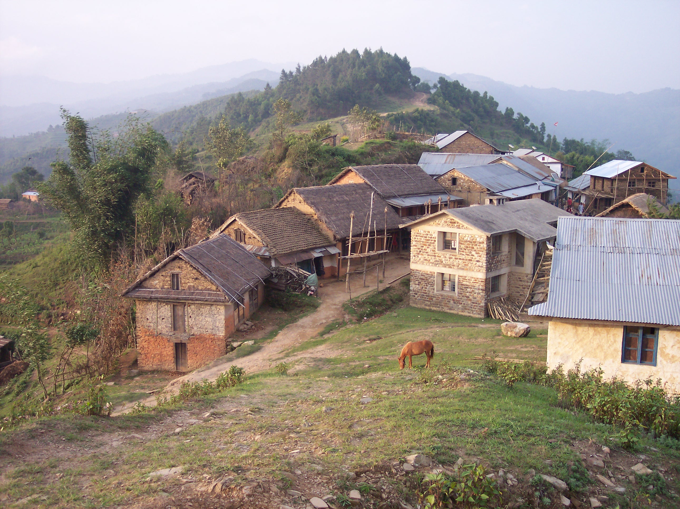 Picture of Balankha Bazar, Bhojpur district, Nepal.